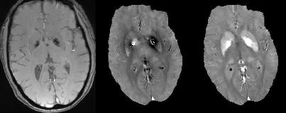 Using QSM to differentiate calcification from iron. Both iron and calcification appear to be hypointense regions on the magnitude image, and the confounding phase value in the basal ganglia cannot provide a definitive differentiation. On the other hand, the paramagnetic iron presents positive susceptibility in the basal ganglia, while the diamagnetic calcification presents negative susceptibility in the lateral ventricles.